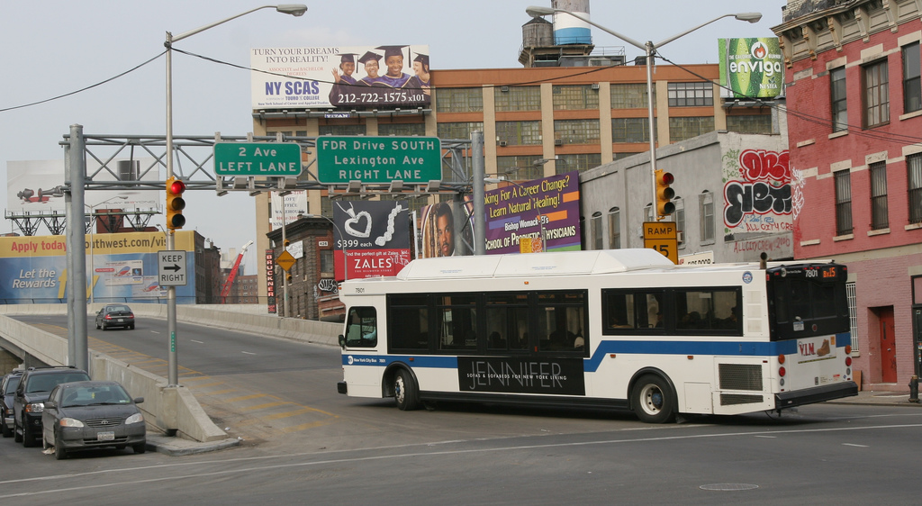 Looking southwest from under the Deegan Expressway, at the main Bruckner Blvd entrance to the Third Avenue Bridge, in Mott Haven, west of Port Morris. The eponymous Mott Iron Works factory is still to be found on the northwest side of the bridge, behind that green traffic sign.